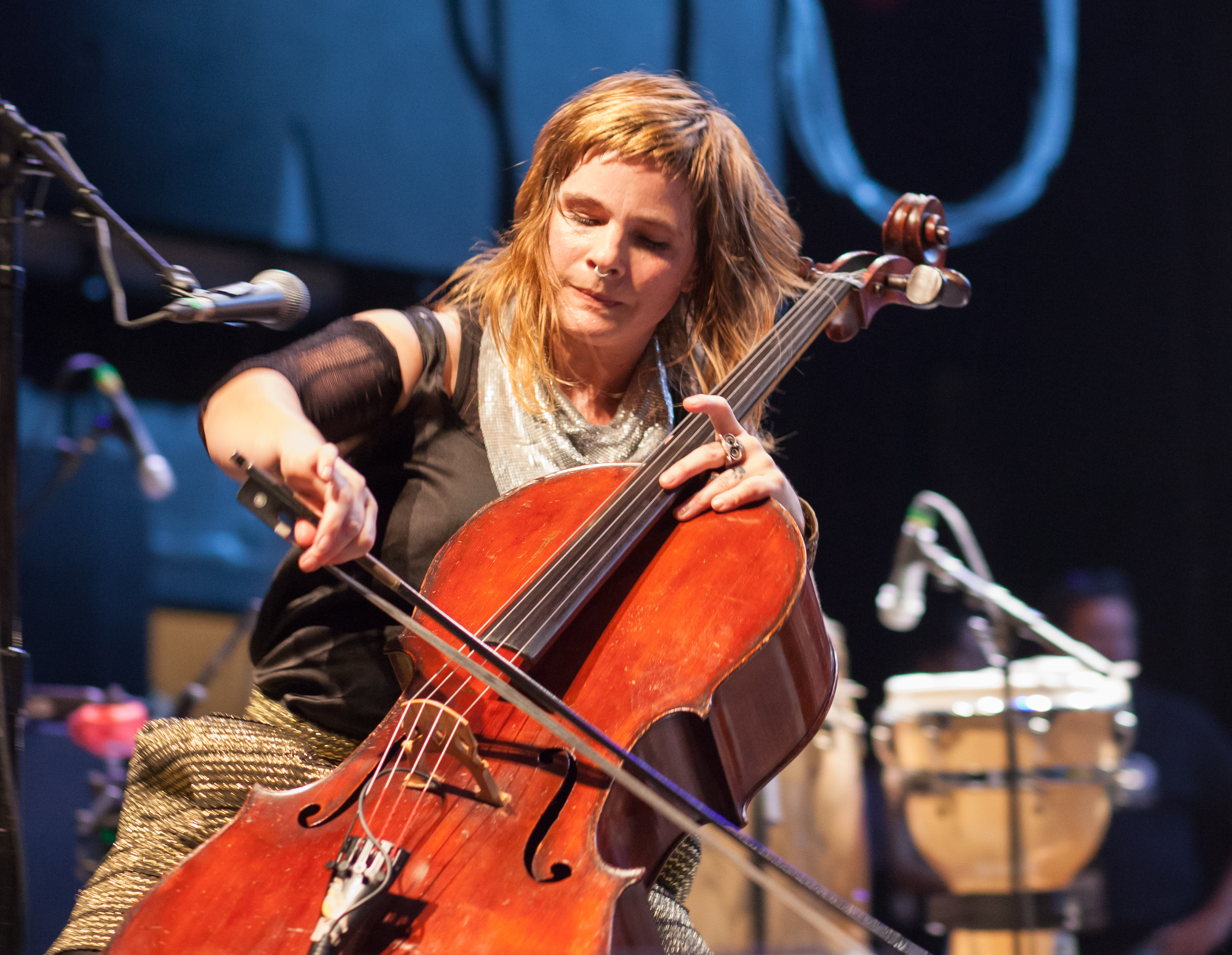 Madigan Shive performs with Bonfire Madigan at the Rock Against The TPP rally/concert, Regency Ballroom, San Francisco, September 2016.